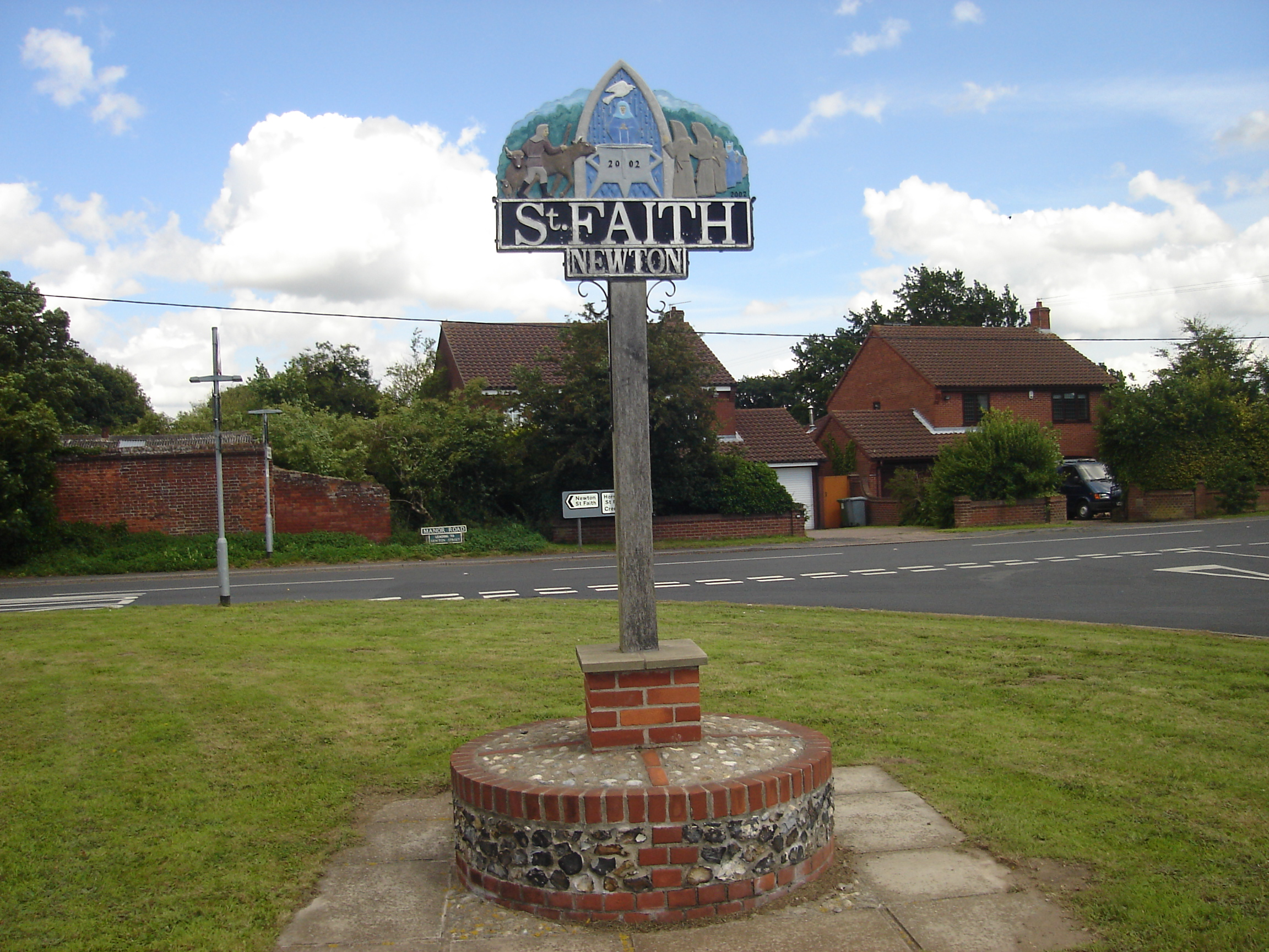 Picture of village sign at Newton St Faith, Norfolk